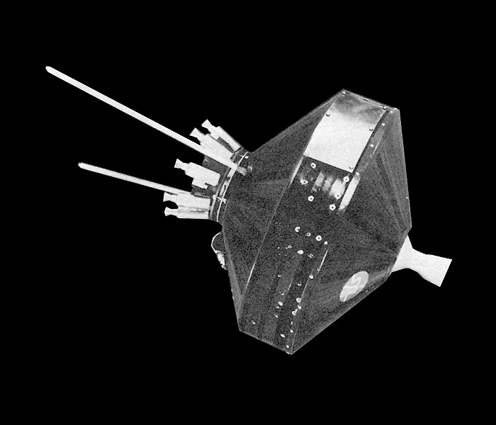 Pioneer (Able) lunar probes.